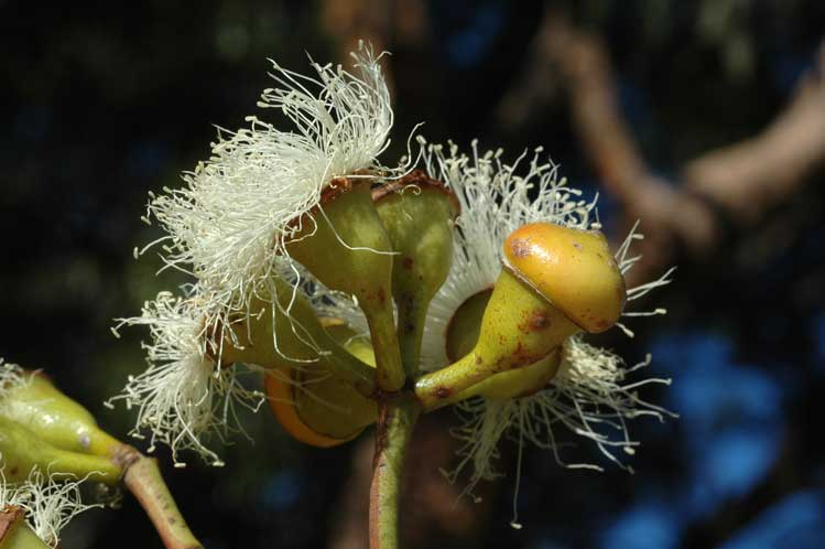 Flower bud and flowers of Corymbia watsoniana in the Royal Botanic Garden, Sydney